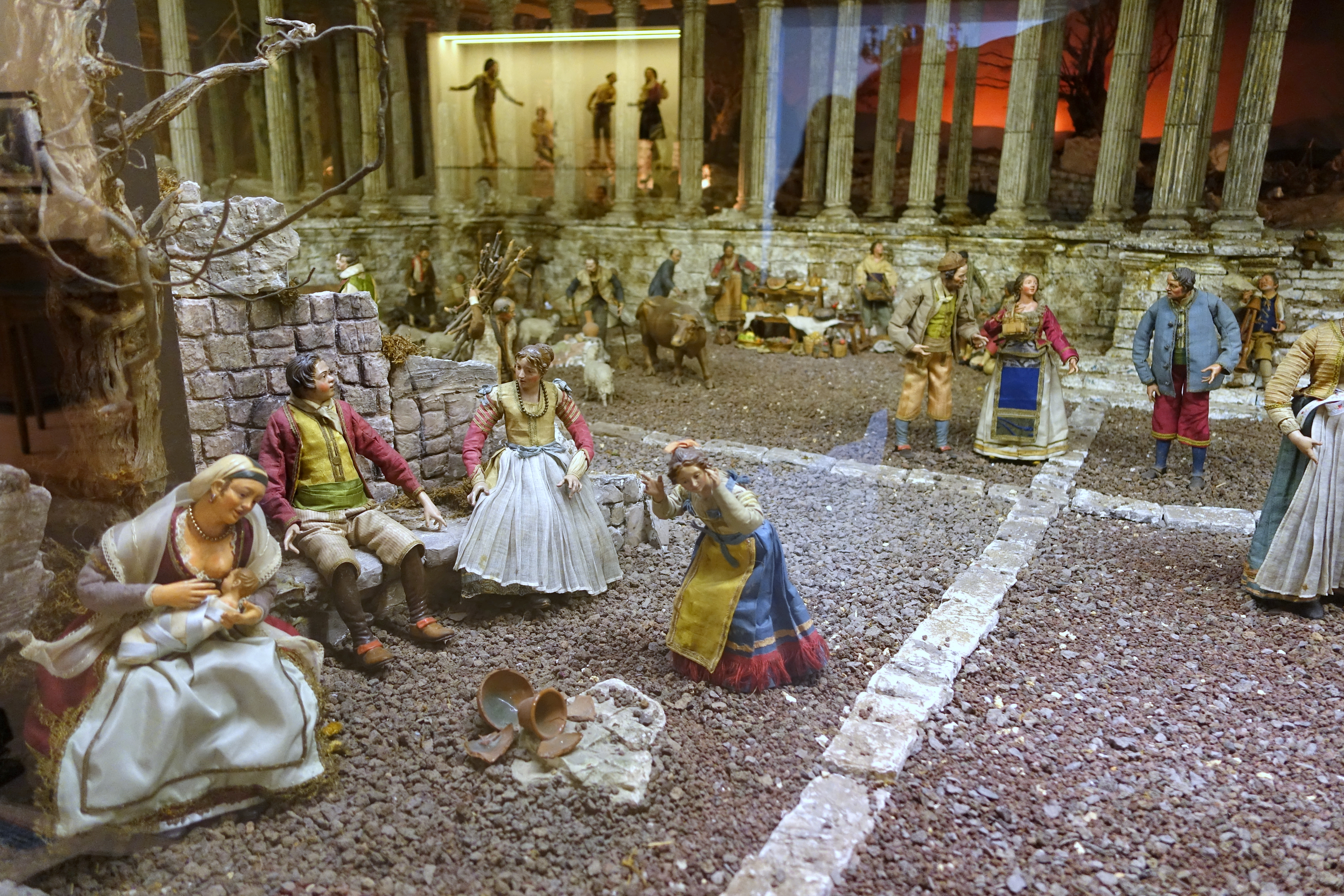 Exhibit in the Museo Nacional de Artes Decorativas, Madrid, Spain. This work is in the public domain because the artist(s) died more than 100 years ago.